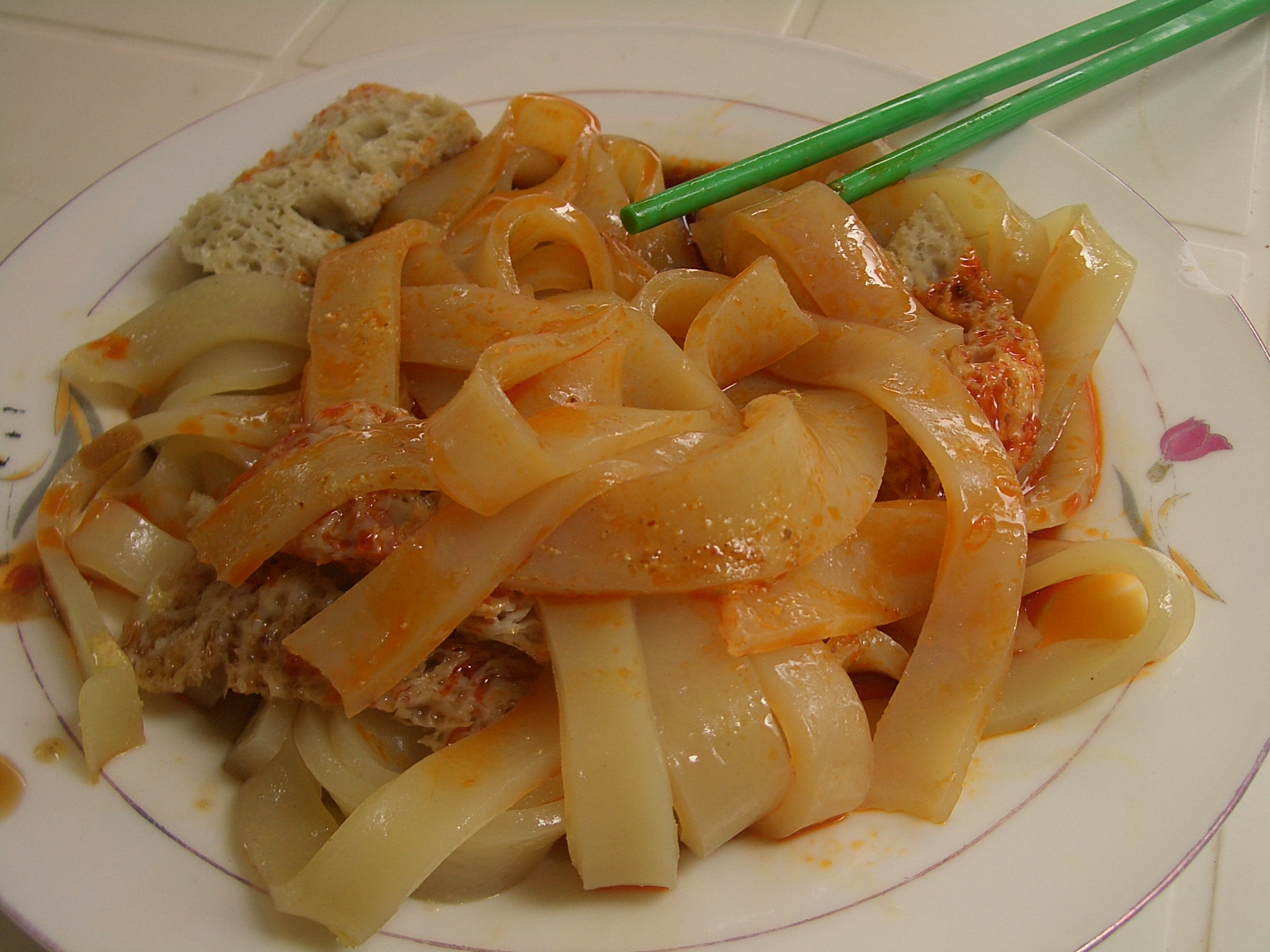 Niang pi, a delicious noodle-and-tofu cold dish, at a sidewalk restaurant in one of Linxia City's market streets